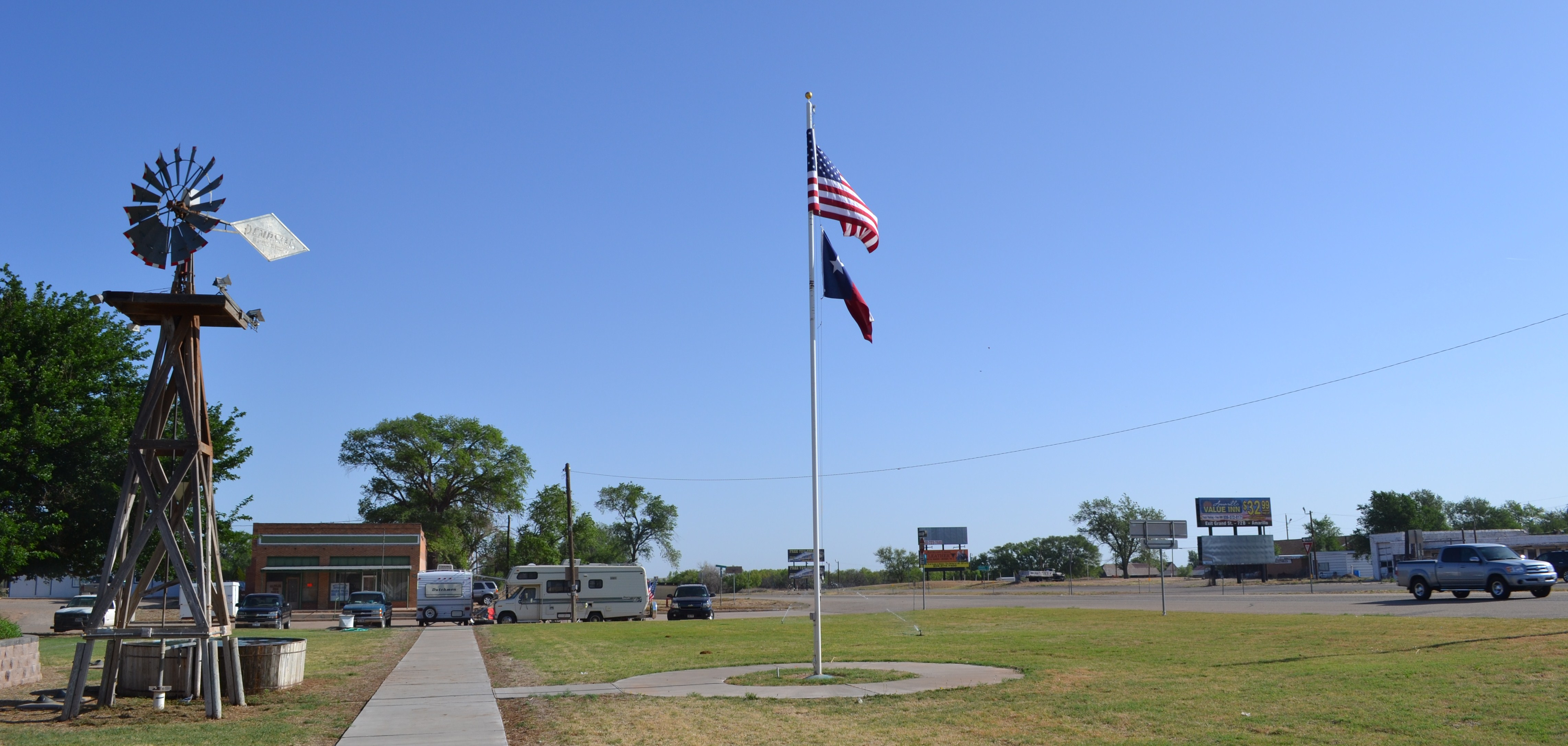 Town Square Looking North